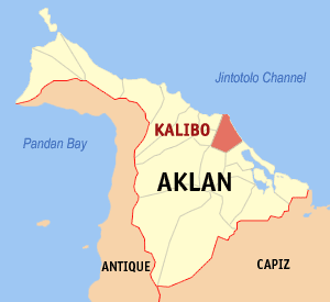 Map of Aklan showing the location of Kalibo